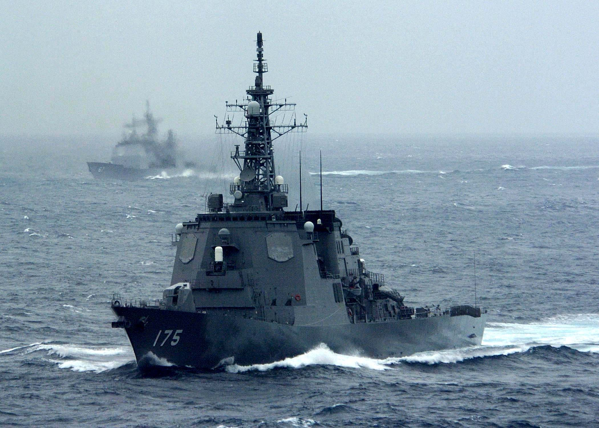 Pacific Ocean (June 9, 2005) - The Japanese Maritime Self Defense (JDS) ship JDS Myoko (DDG 175), foreground, sails in formation along with the USS Shiloh guided missile cruiser (CG 67), rear, during a passing exercise between the U.S. and Japanese naval forces. The Nimitz-class aircraft carrier USS Abraham Lincoln (CVN 72) is currently conducting readiness training in support of the Navy's Fleet Response Plan. U.S. Navy photo by Photographer's Mate Airman Justin R. Blake (RELEASED)